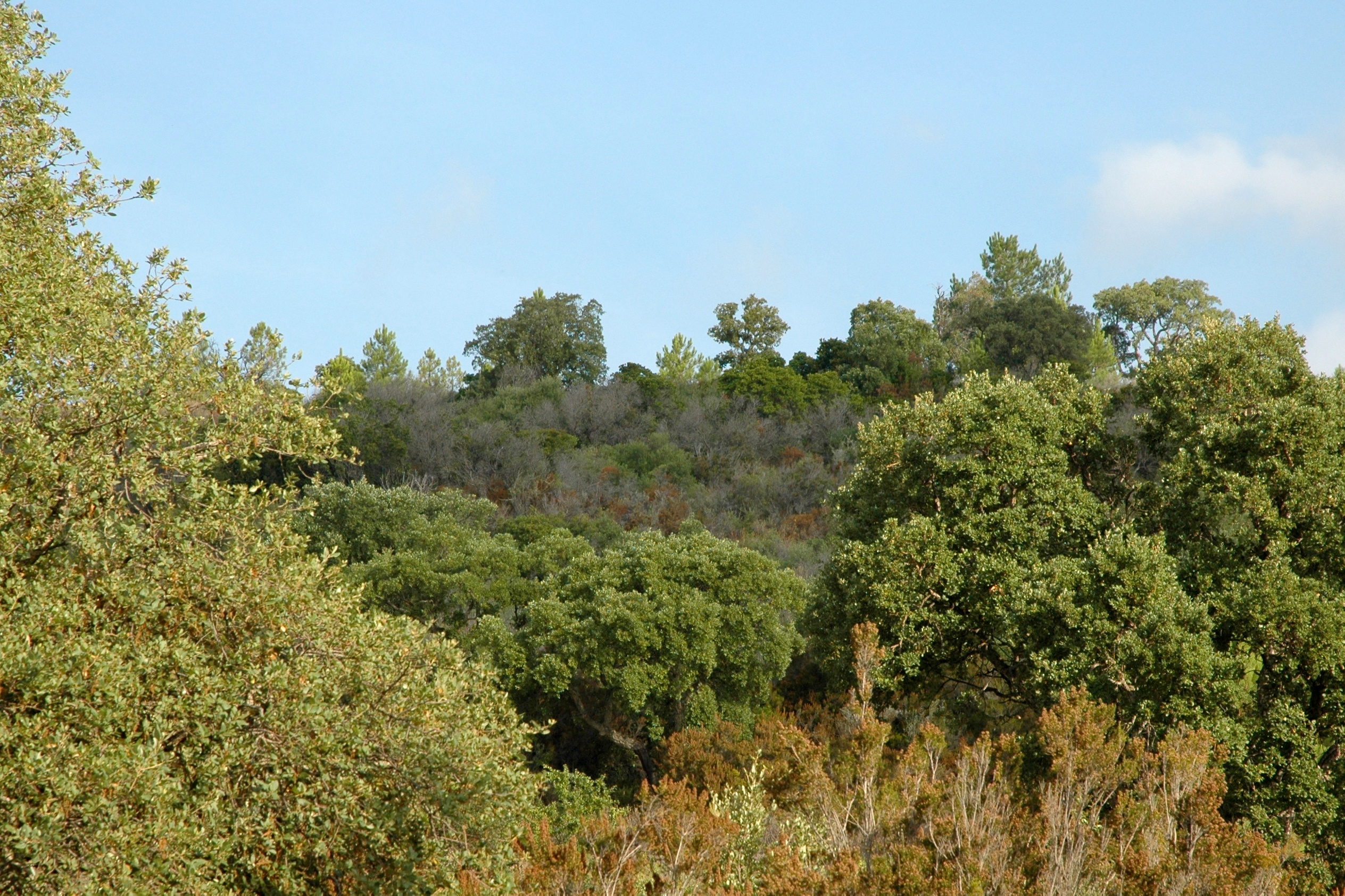 Maquis near Sainte-Lucie de Porto-Vecchio